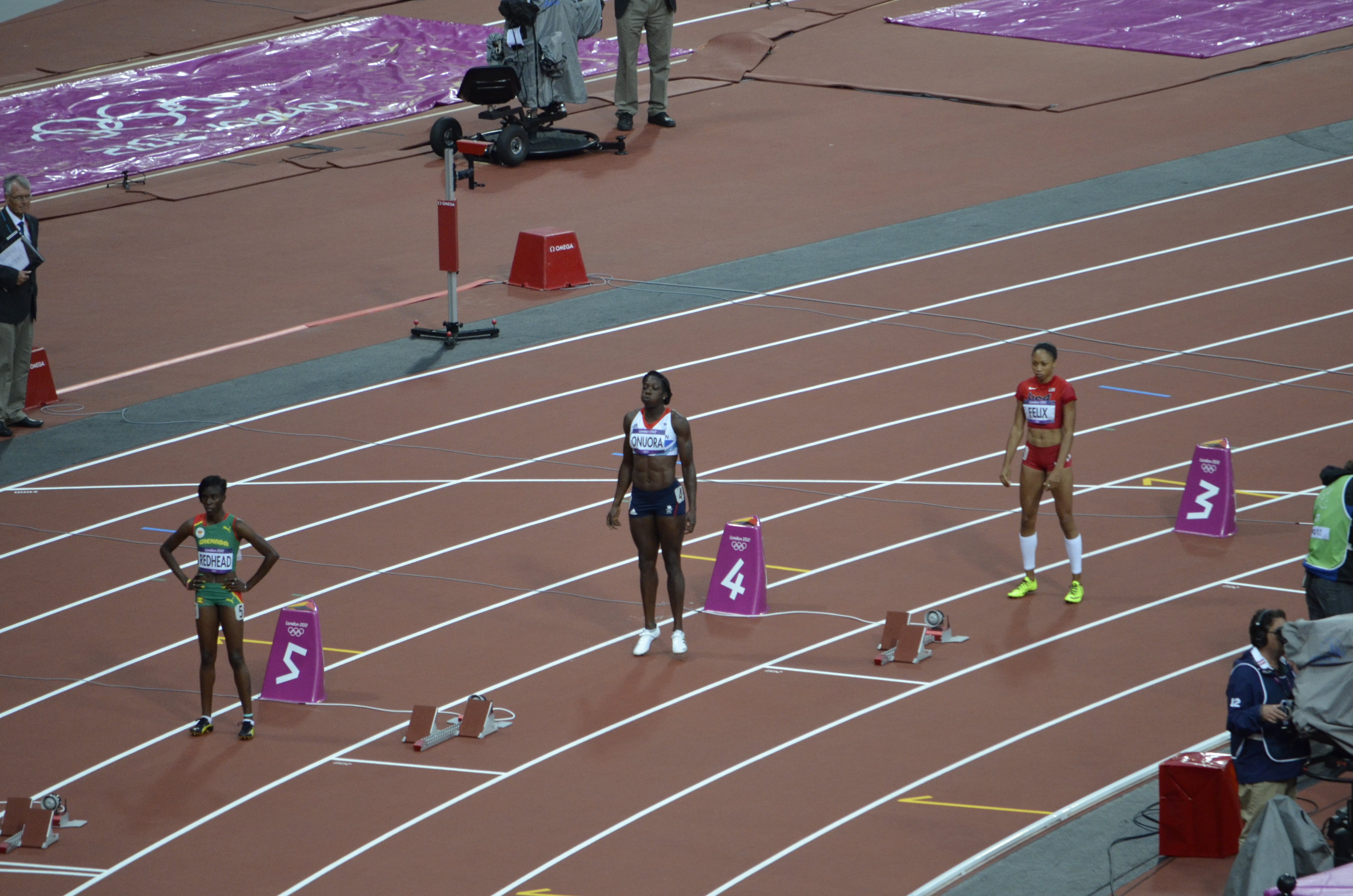 Janelle Redhead, Anyika Onuora, Allyson Felix